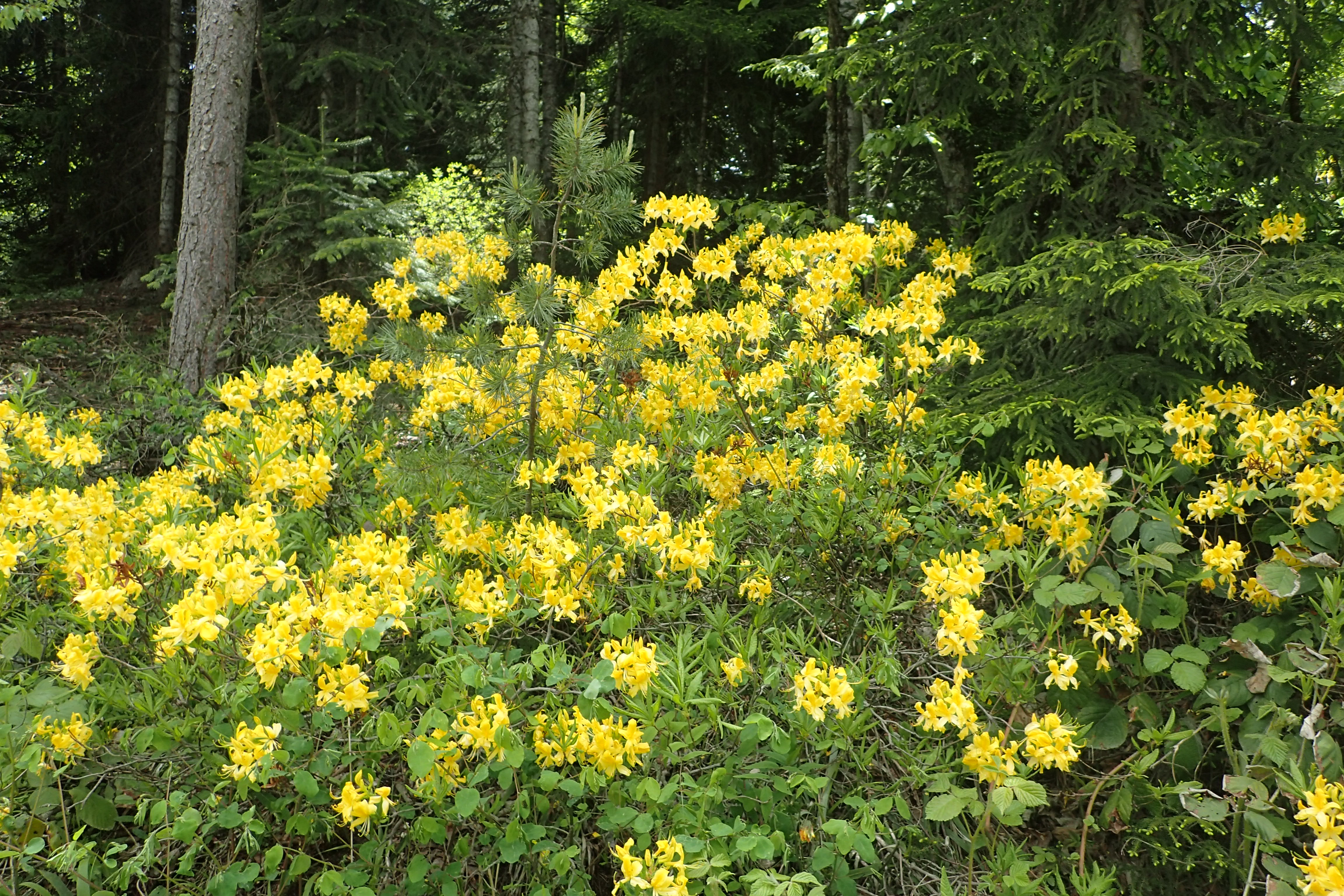 Rhododendron luteum in Utkisubani (Georgia)